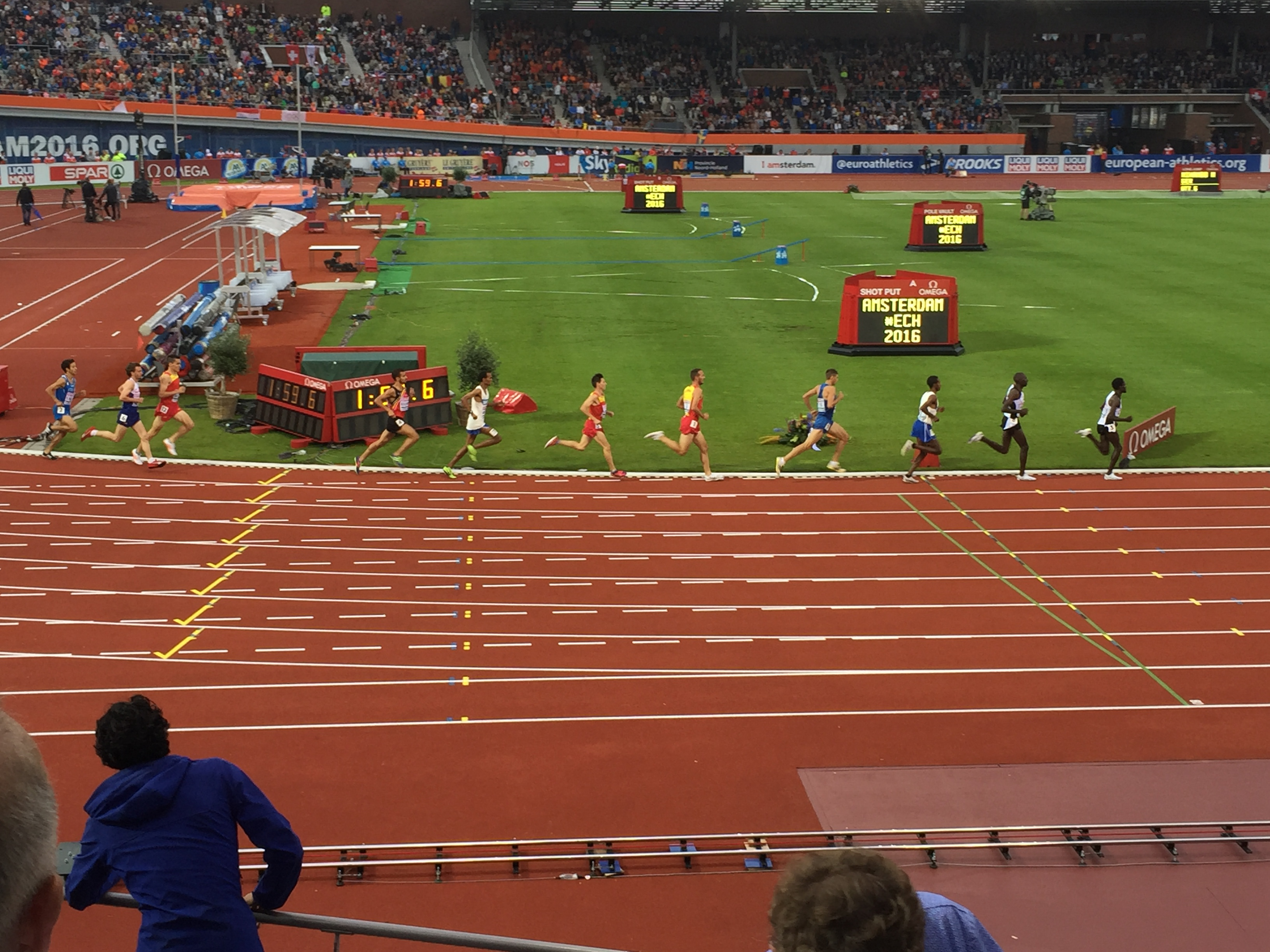 European Athletic Championships 2016 in Amsterdam - 8 July 2016 European Championships in Athletics (8 July) Schedule for this day (evening session): Hepathlon W: 18:05 Shot Put 20:00 200m Round 1: 18:15 1500m W Semi-Finals: 18:35 800m M 18:50 200m M 19:15 100m W Finals: 18:10 Hamer Throw W 19:10 Pole Vault M 19:20 Long Jump W 19:40 400m Hurdles M 19:50 400m M 20:15 Discus Throw W 20:25 400m W 20:35 200m M 20:45 10,000m M 21:25 3000m Steeplechase M 21:45 100m W